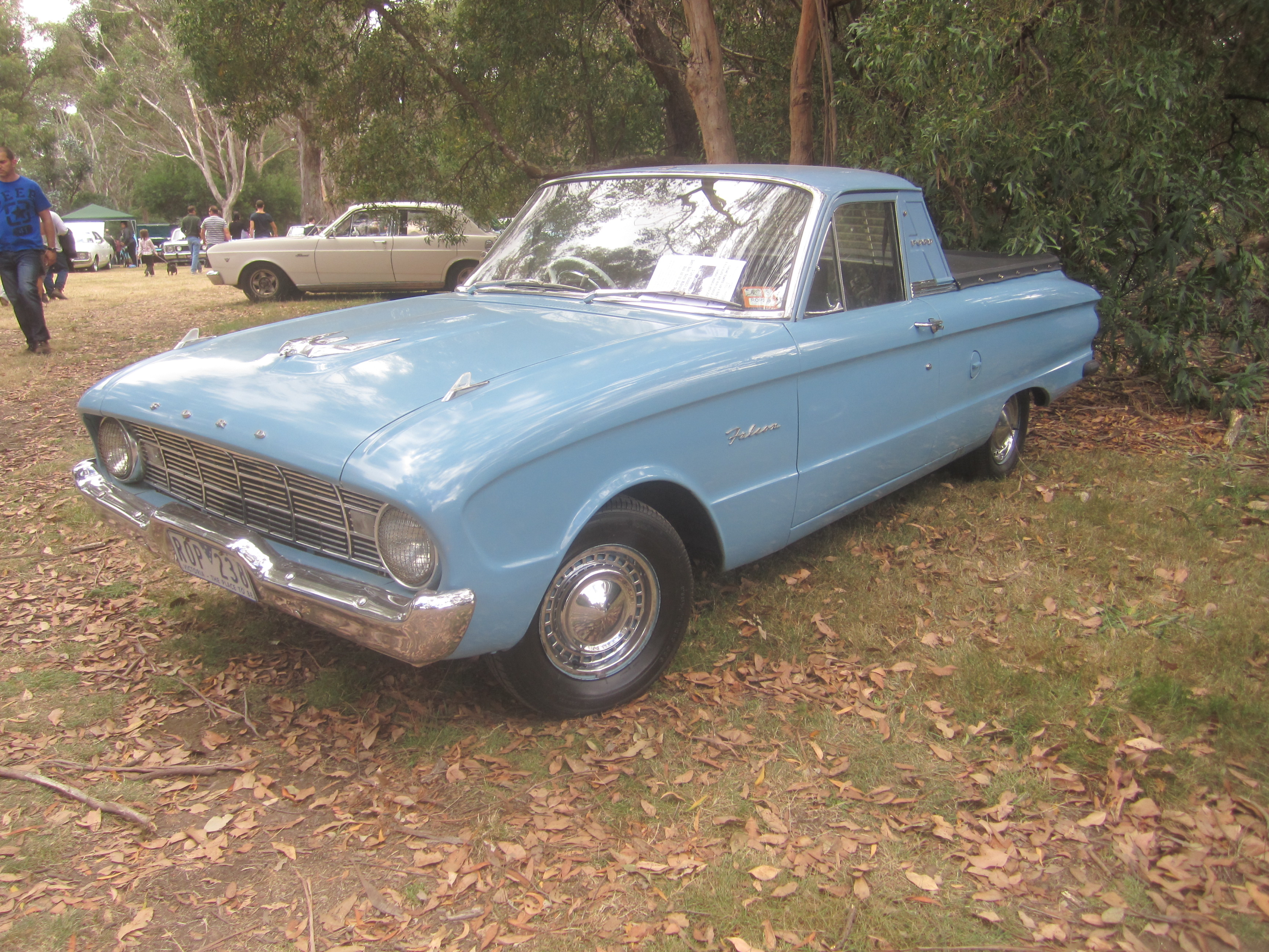 The First Australian Falcon the XK, basically a right hand version of the American car with adjustments to the suspension and diff. The XK proved to be a little fragile over the outback roads. Built from Sept 1960- Aug 1962 Engines; 144 and 170 cu in 6cyl Standard Utility and Panel Vans were added in 1961.